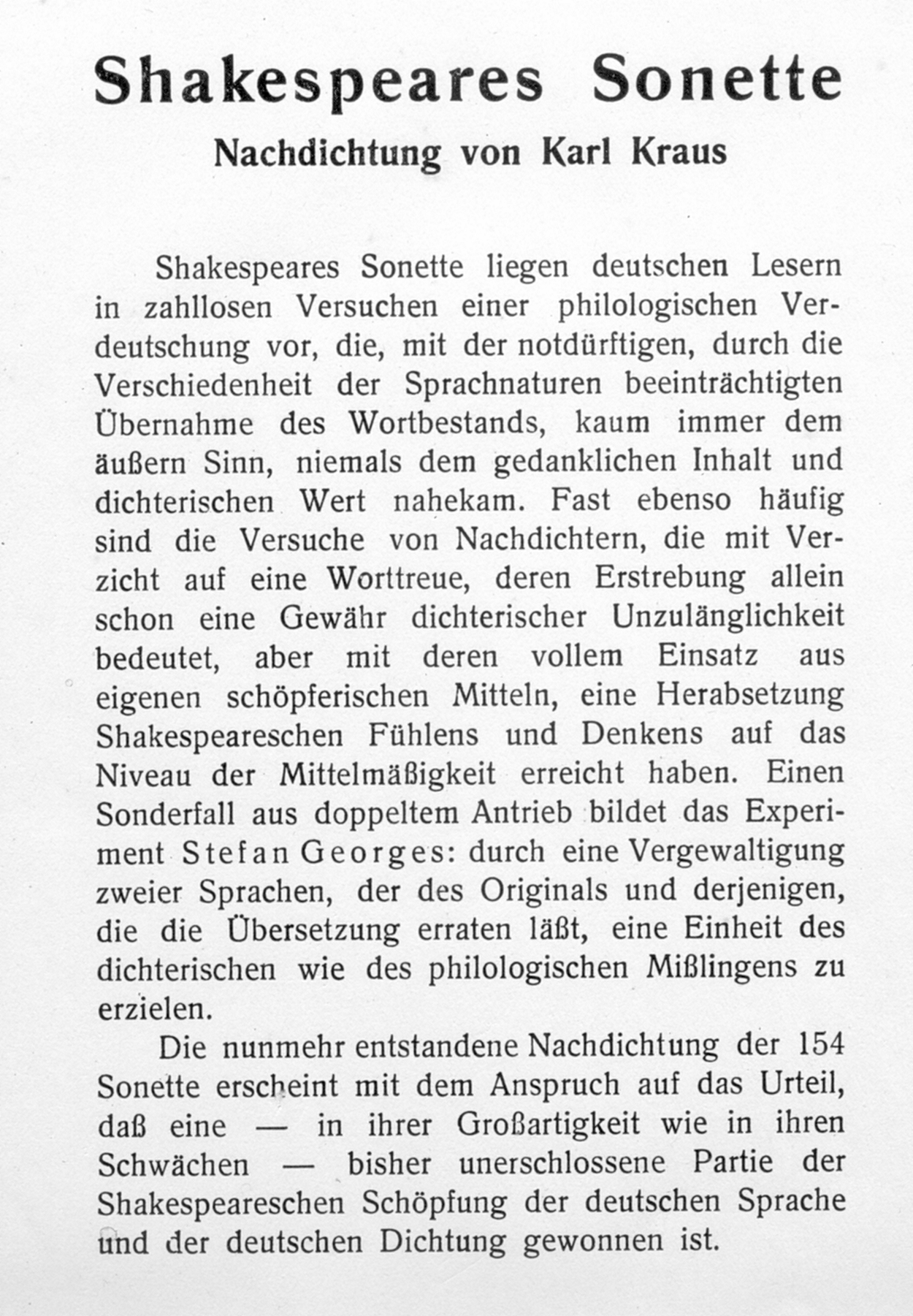 belongs to a set of text pictures related to Shakespeare's sonnets